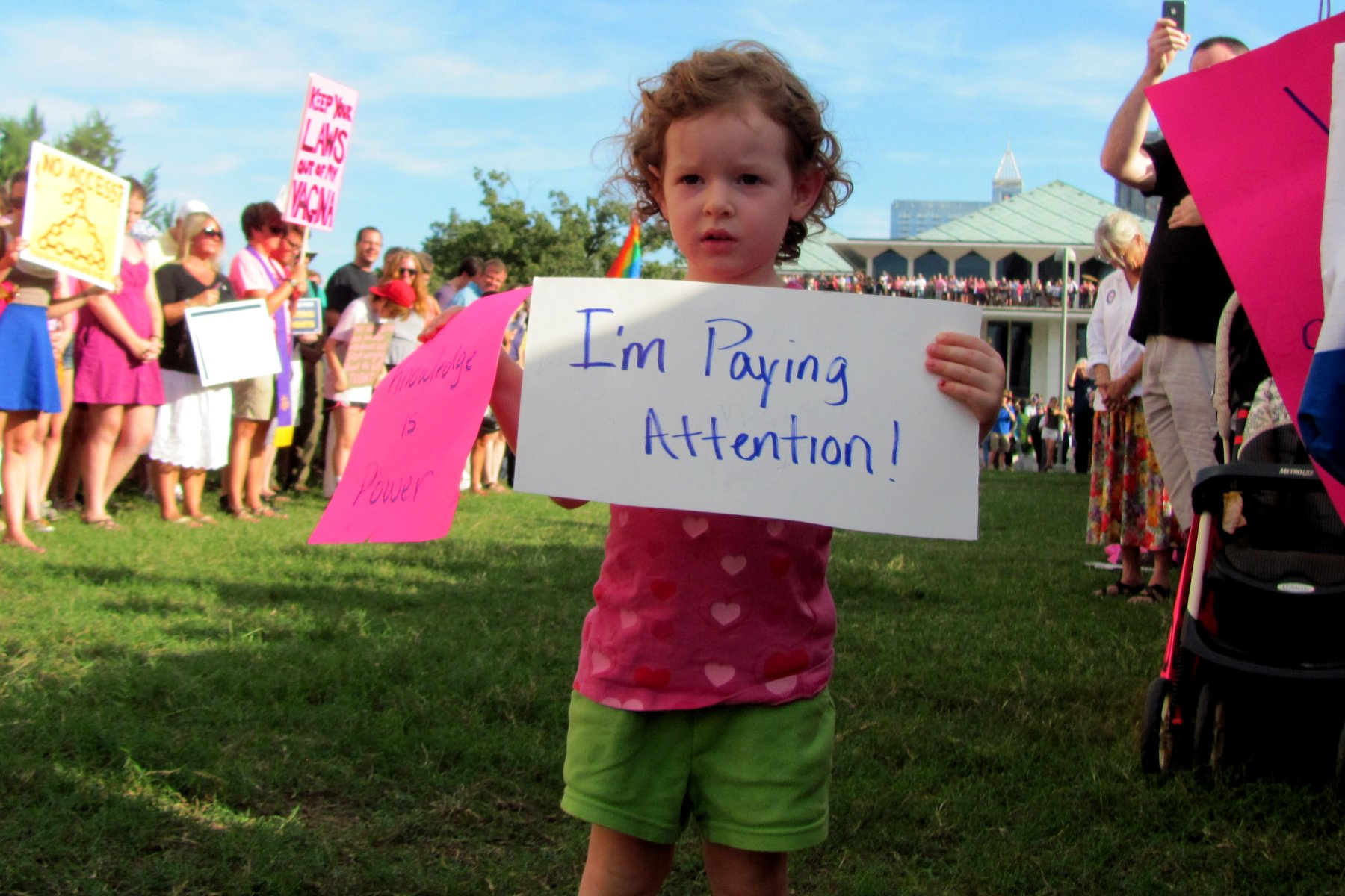 Moral Monday Protesters